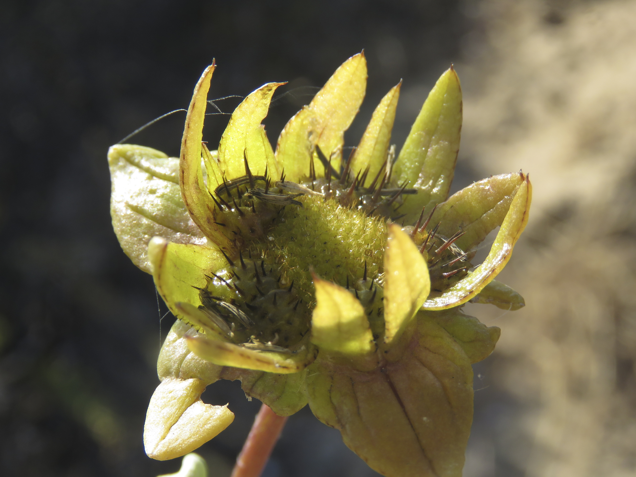 Fruiting head of kusslaaibos, Didelta carnosa, showing sections of the receptacle that are swollen and spiny and will eventually become woody, detach with the broad outer involucral bract